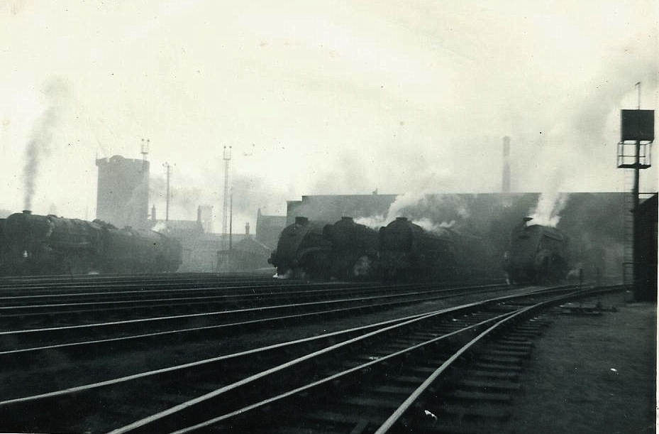 Kings Cross "Top Shed" on a drizzly day I recollect was in about May 1963. What a scene with two A4's, an A1, an A3, a V2 and a 9F visible. Amazingly, just a month later Top Shed was closed and steam banished from the southern part of the East Coast Main Line. I had first visited Top Shed a year earlier when it was packed with pacifics - but without a camera! Oh woe is me. Scanned photo from one of mine taken with a mere Brownie 127 - hence doubtful quality!